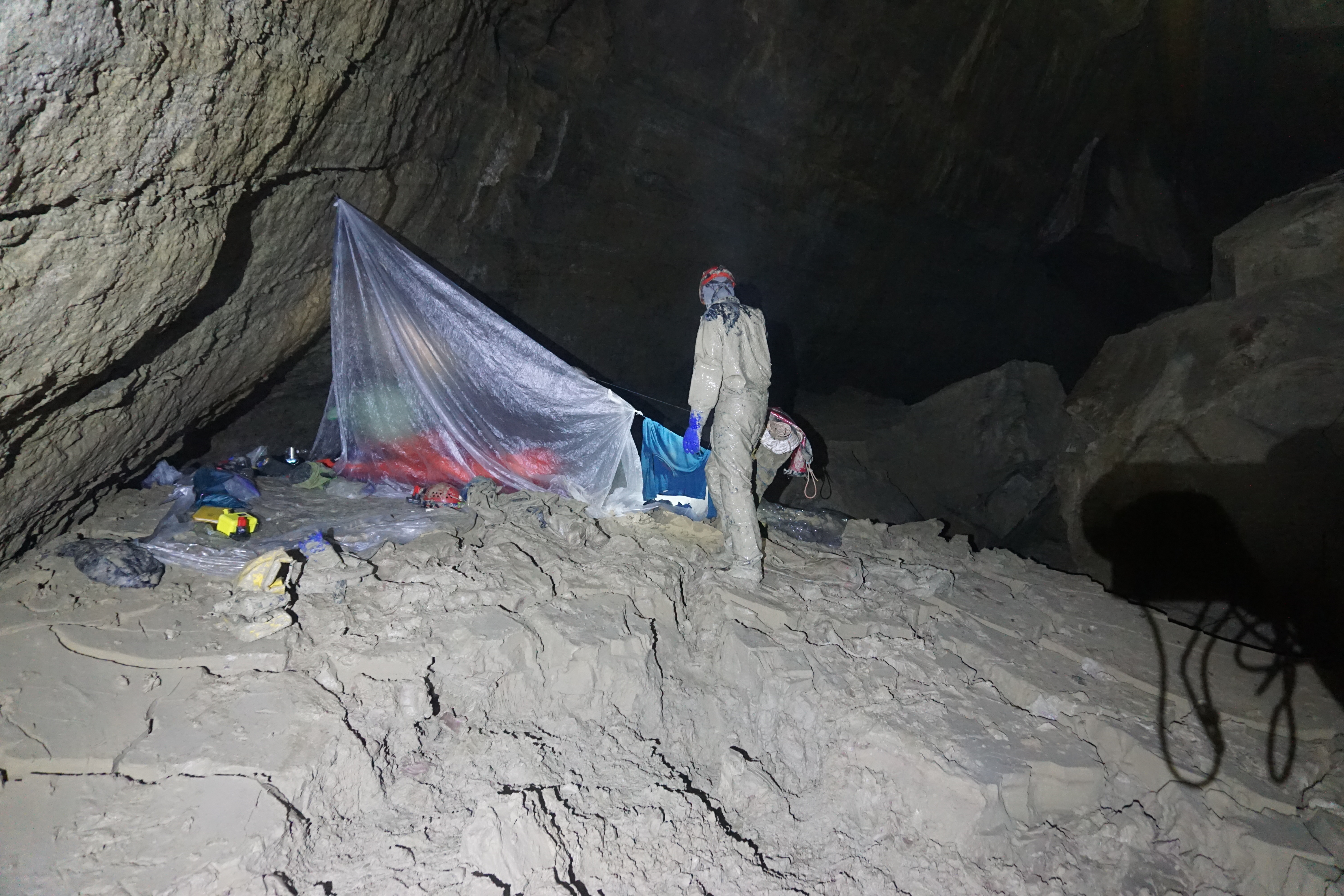 2016 camp temporarily setup in the only suitable spot in the cave